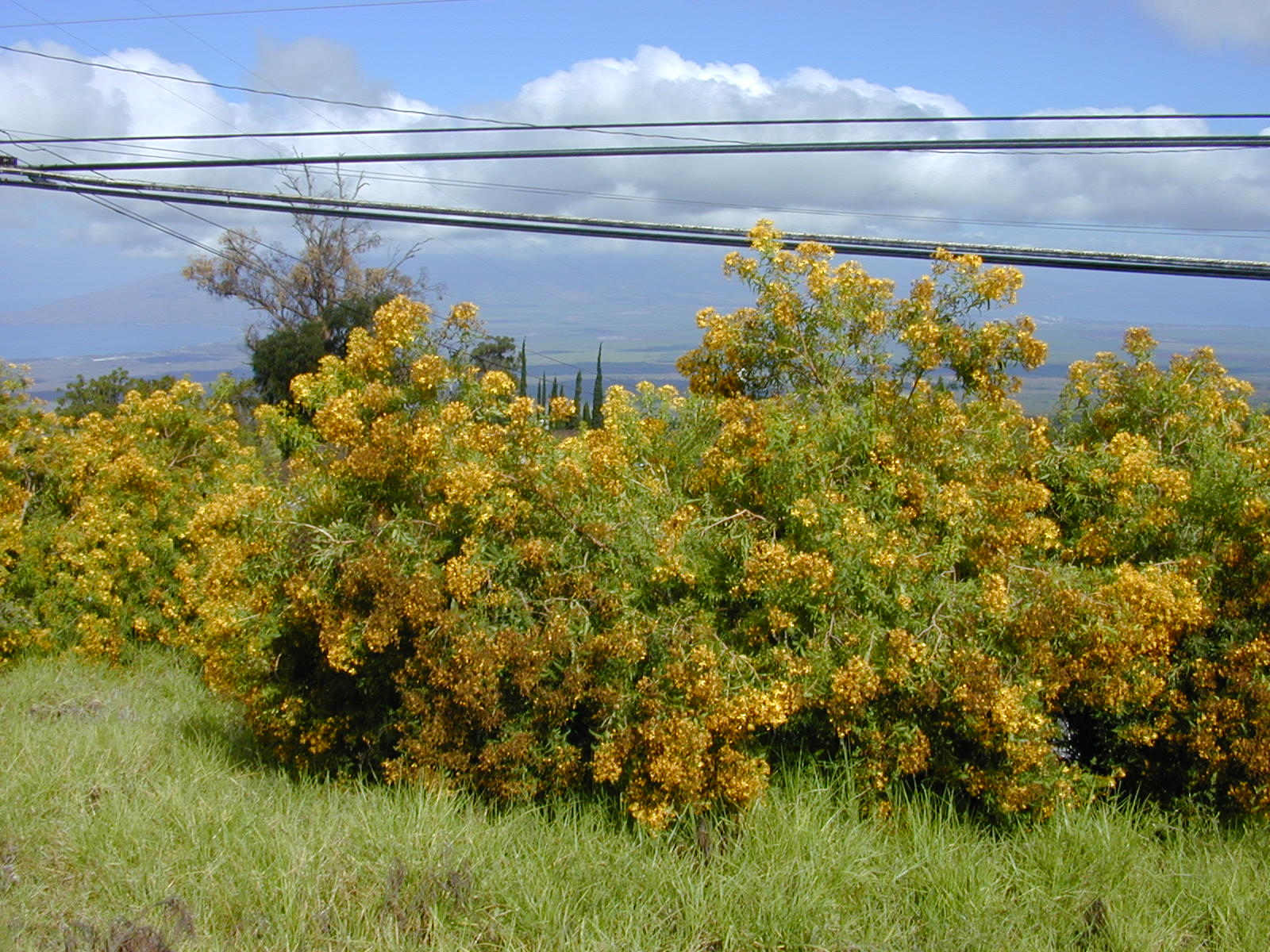 Hypericum canariense (habit). Location: Maui, Kula